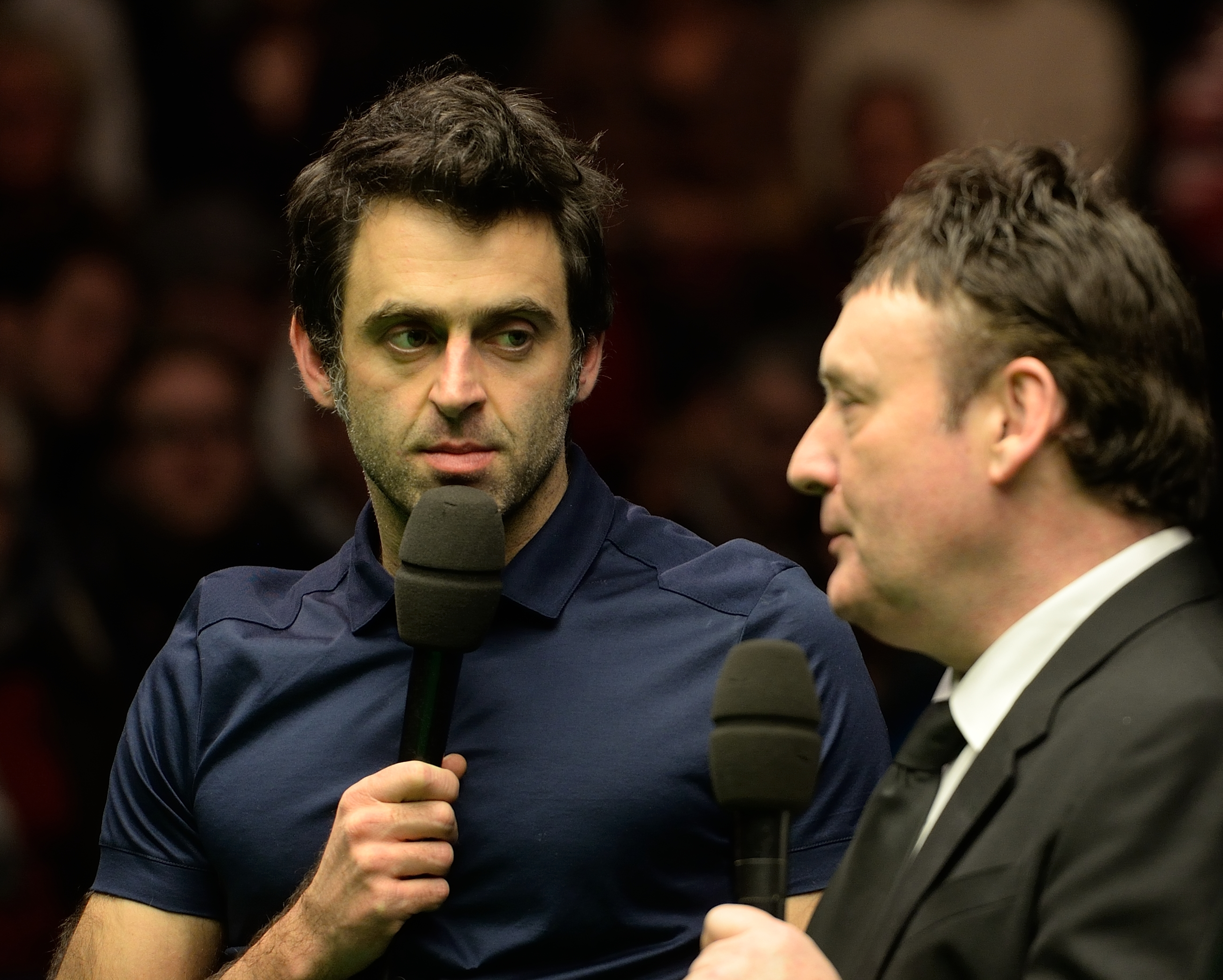 Picture taken in Berlin during the Snooker German Masters in 2015. Jimmy White, Ronnie O’Sullivan.